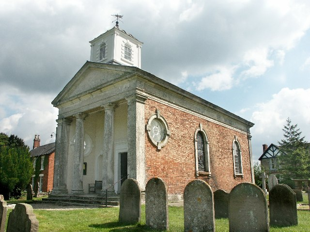 St Helen's parish church, Saxby, Lincolnshire, seen from the southwest